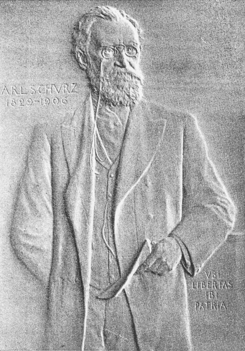 Portrait medallion of Carl Schurz by Victor David Brenner. Some of the medallion is noticably clipped out of the picture on the left.